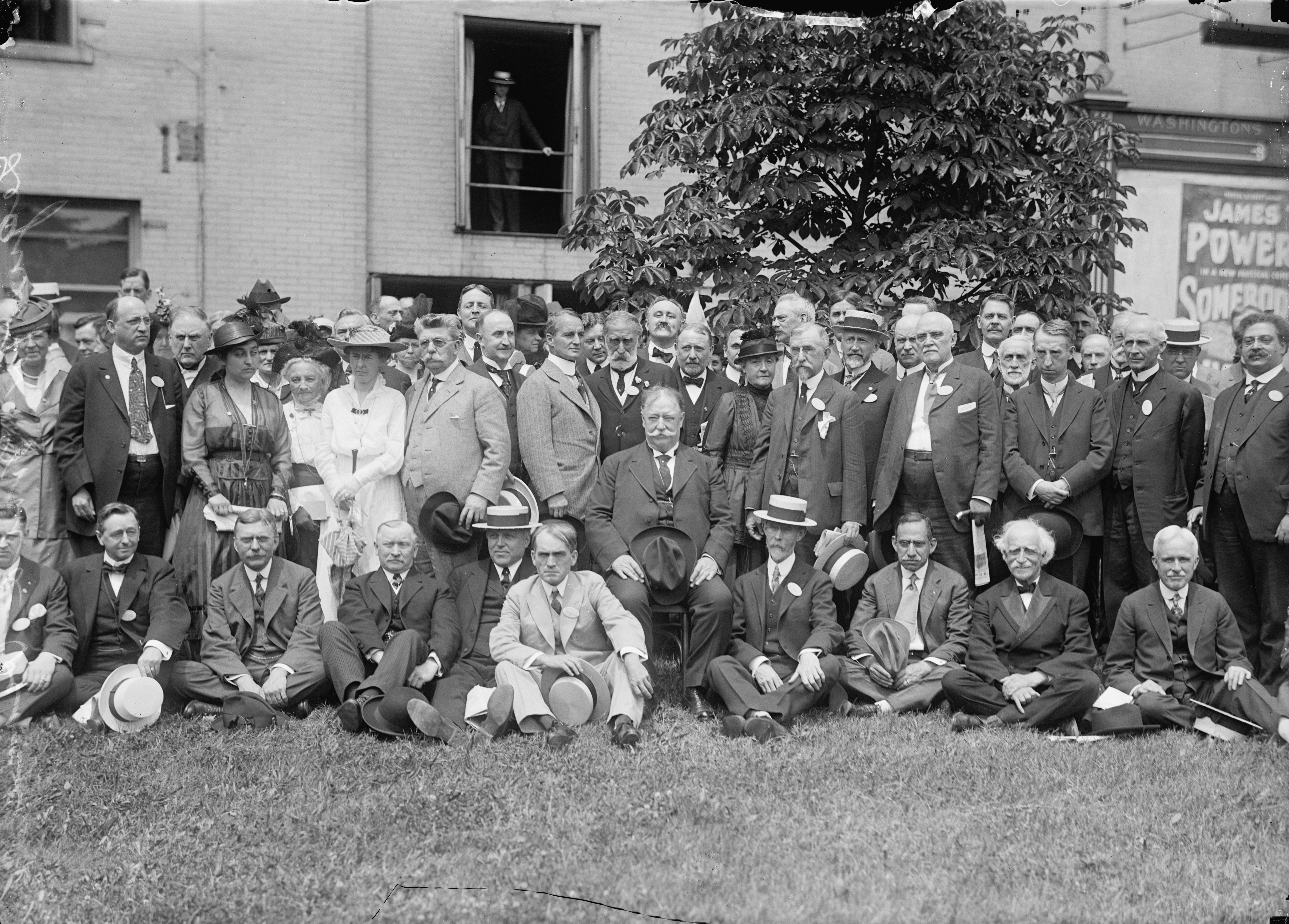 Title: LEAGUE TO ENFORCE PEACE. GROUP. WILLIAM H. TAFT IN CENTER Abstract/medium: 1 negative : glass ; 5 x 7 in. or smaller